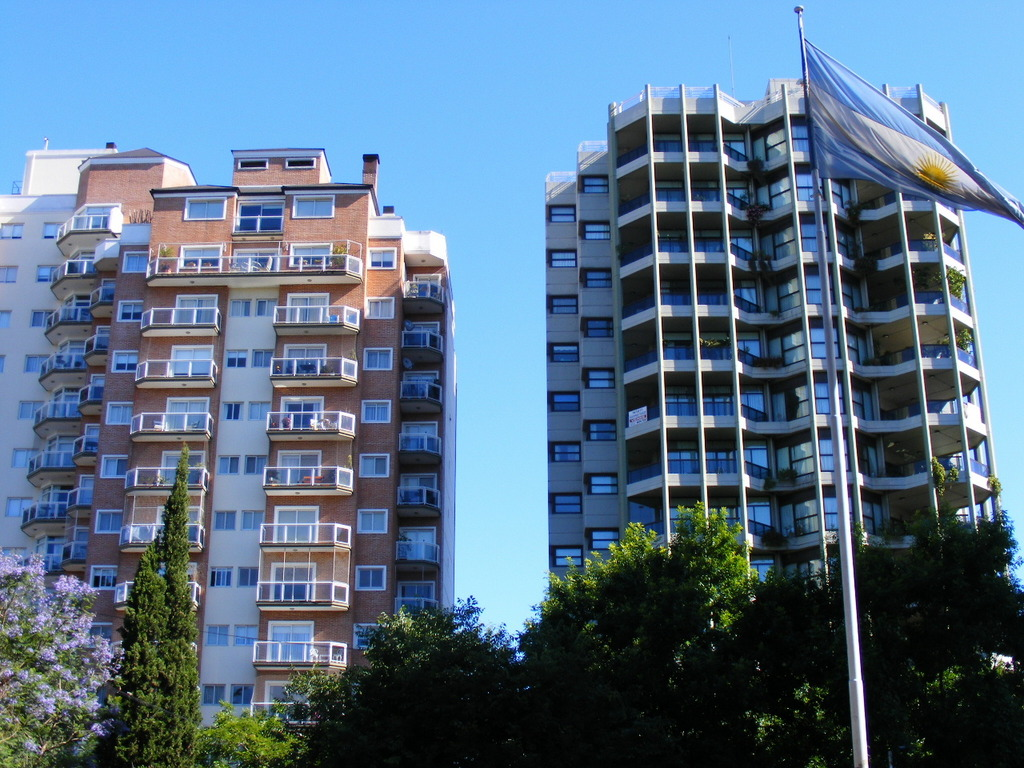 Ramos Mejía (La Matanza partido). Buildings in Downtown Ramos Mejia.